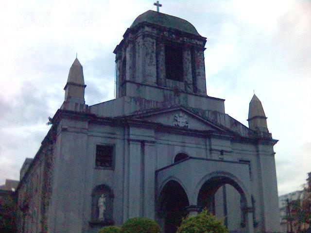 St Gregory the Great Cathedral